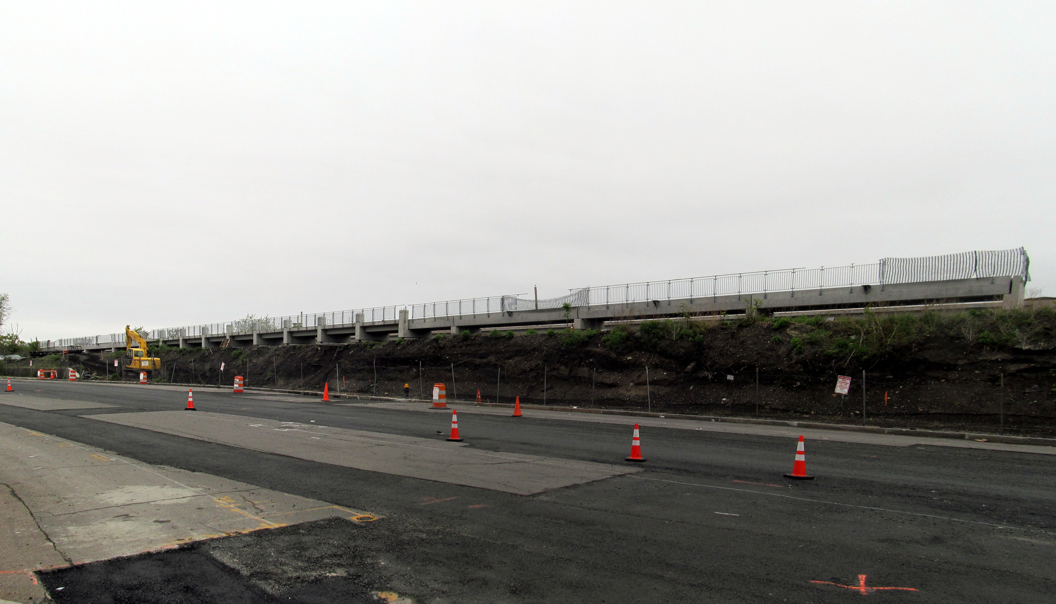 Outbound platform at Newmarket as seen from Newmarket Square